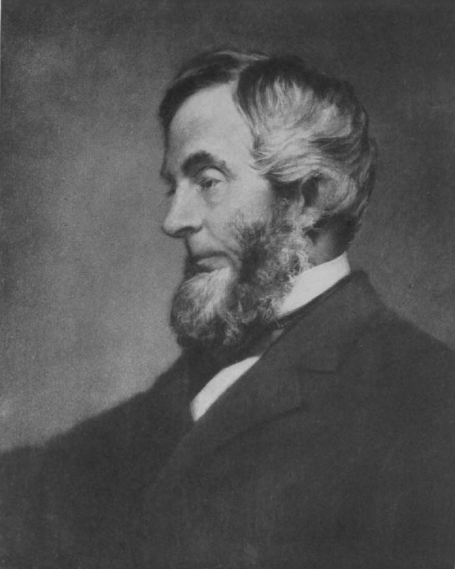 George S. Hillard, Massachusetts attorney and author